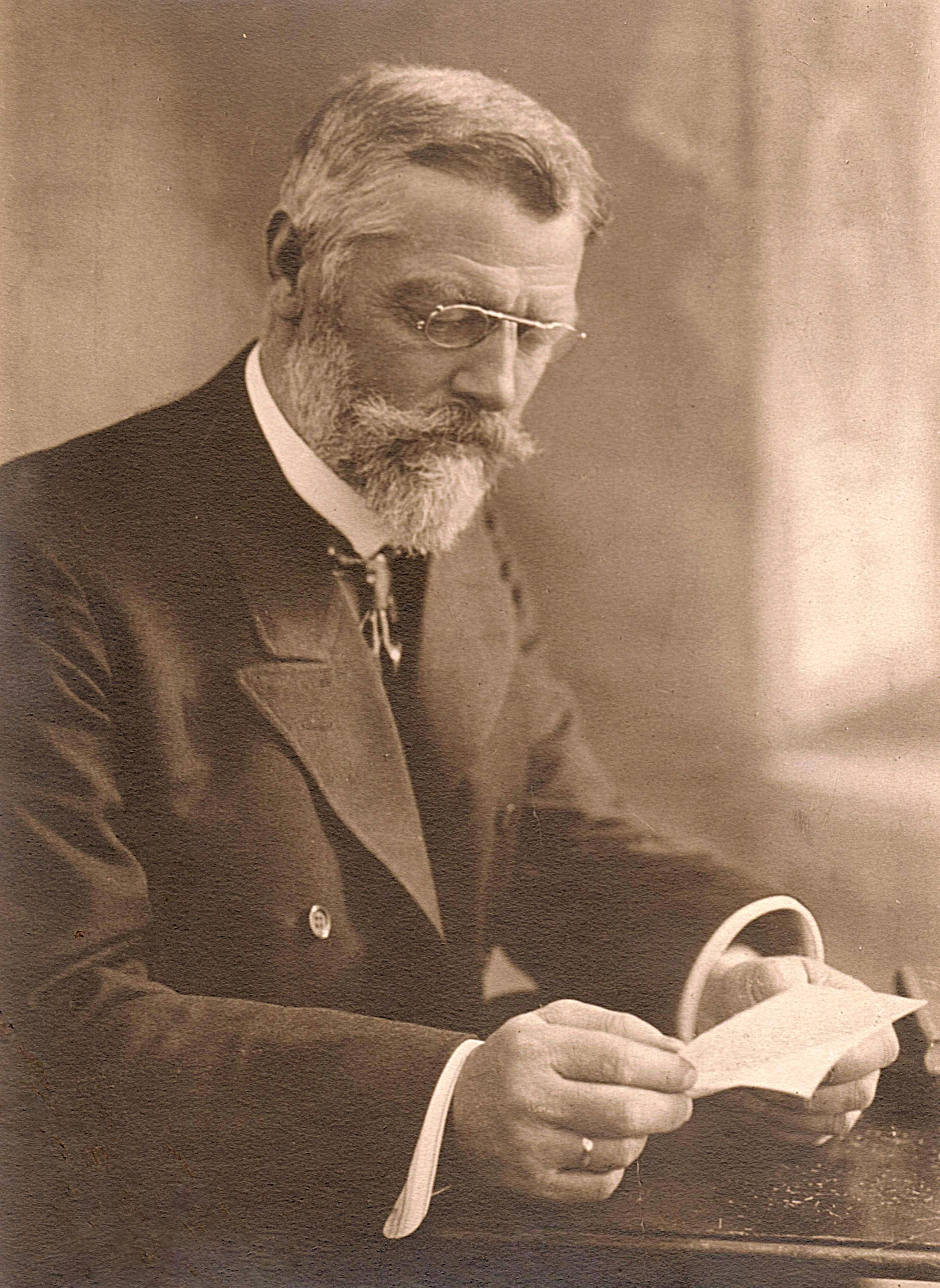 Captain Hermann Eberhard.